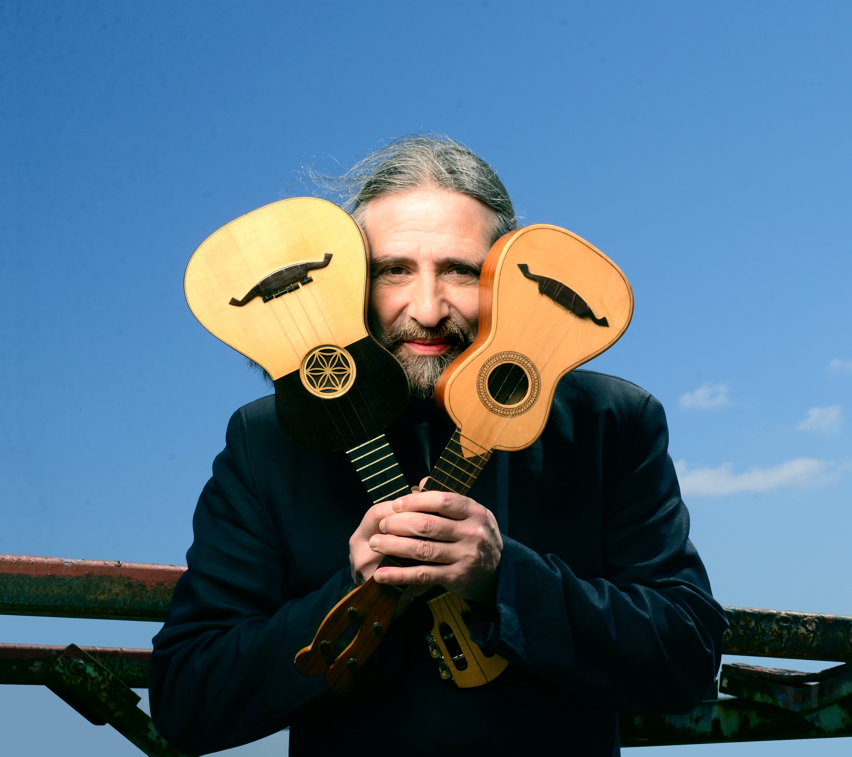 António Gamito Photo